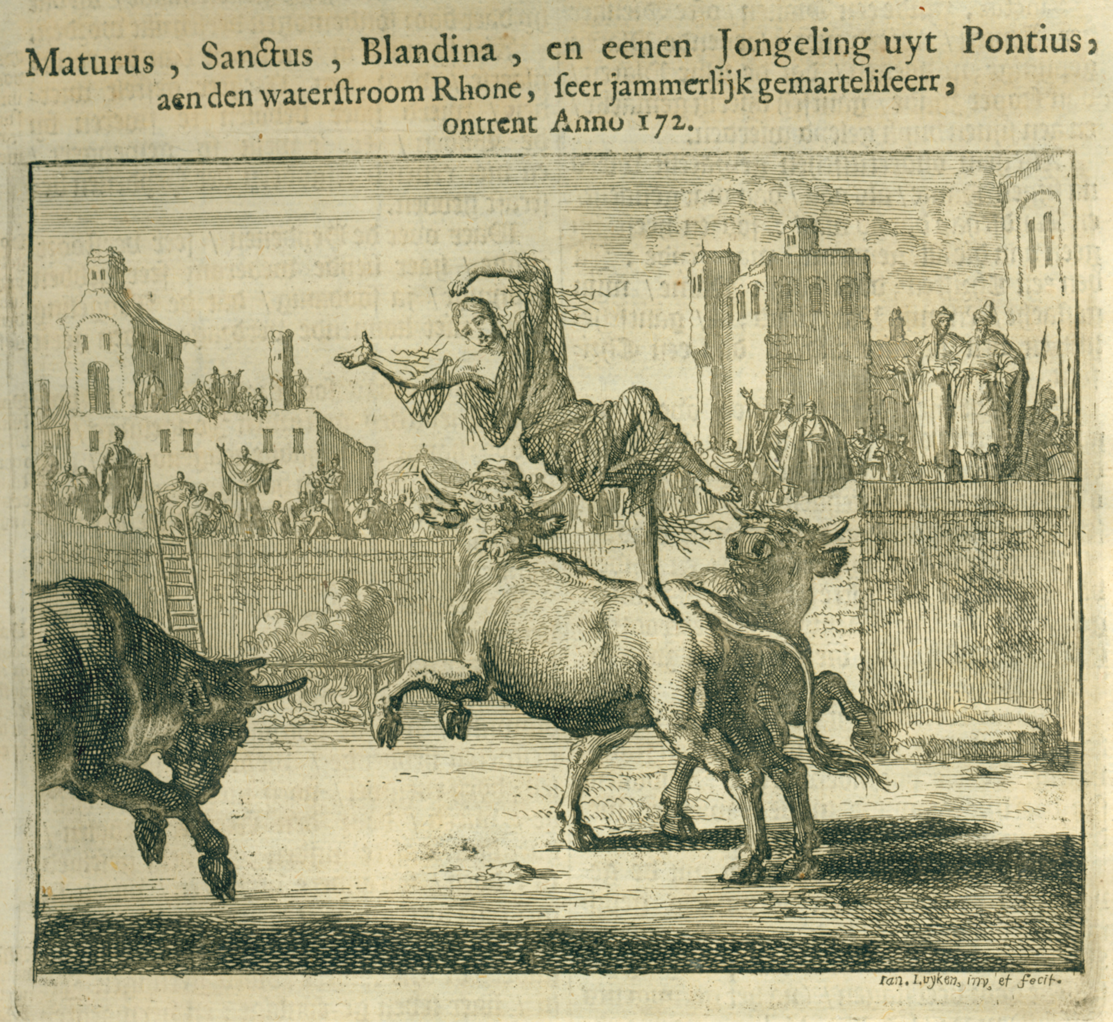 MartyrMaturus, Sanctus, Blandina, and a youth from Pontus, most miserably tormented, on the River Rhone, about the year 172